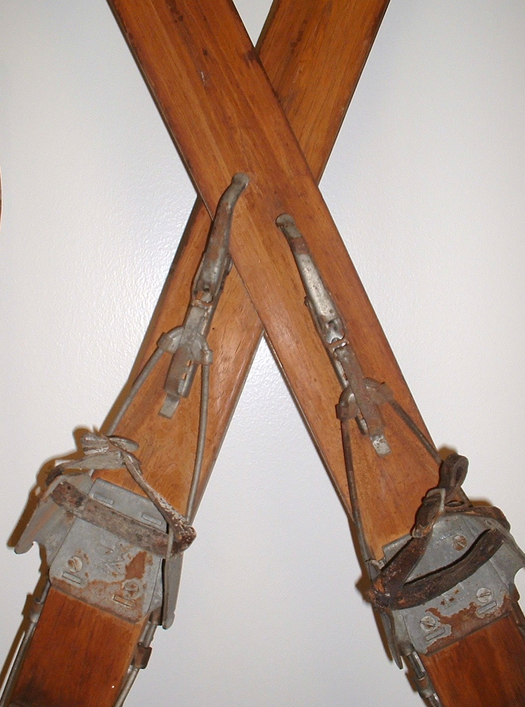 A pair of skis from the early 20th century, made by the Paris Manufacturing Company of Paris Maine. On exhibit in the Ski Museum of Maine.